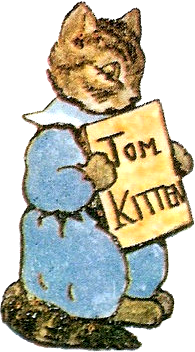 Beatrix Potter inside cover illustration